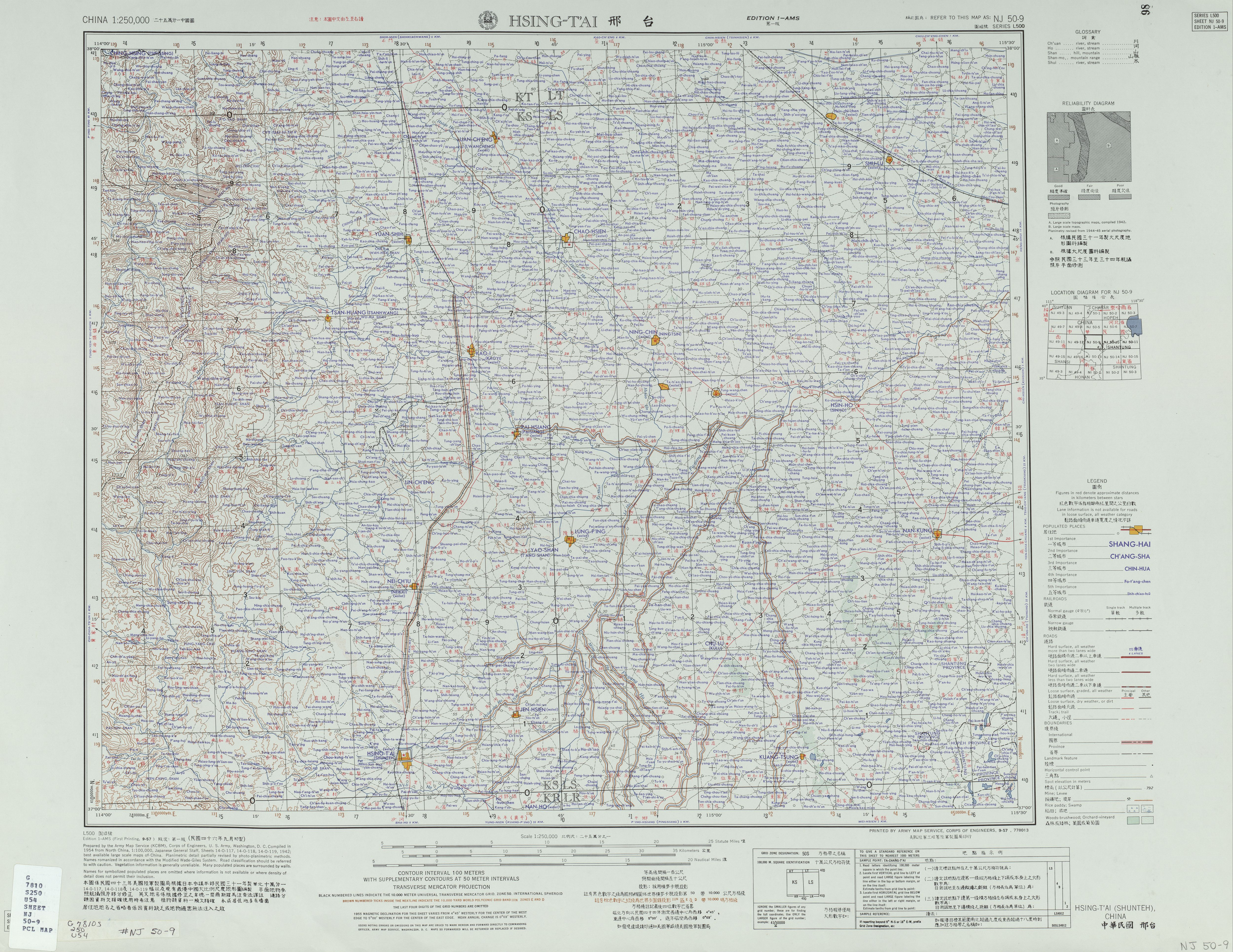 China AMS Topographic Maps